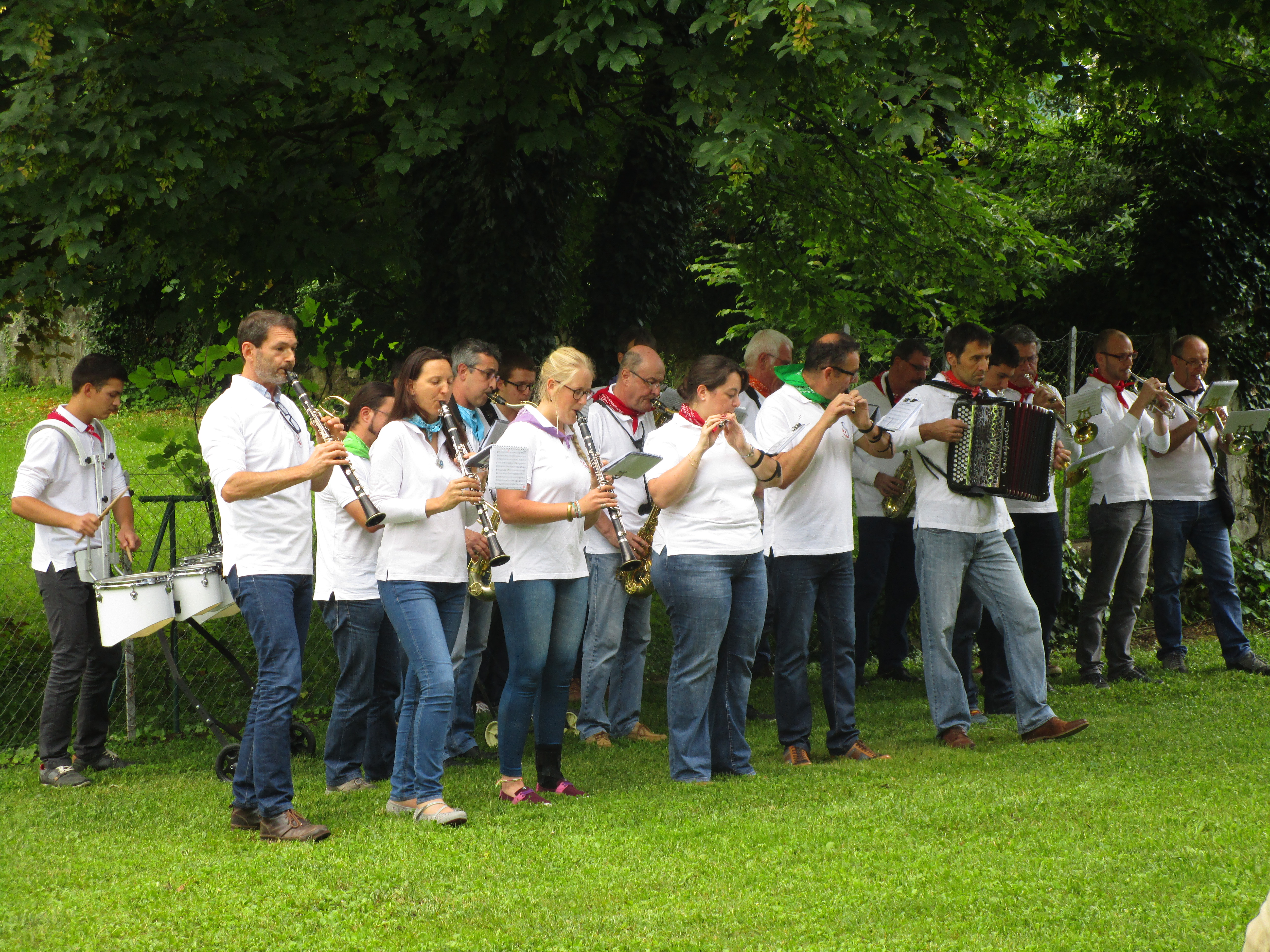 The group La Bandanaz next to the library Samivel within the scope of the Vendredis en Musiques on June 17, 2016.